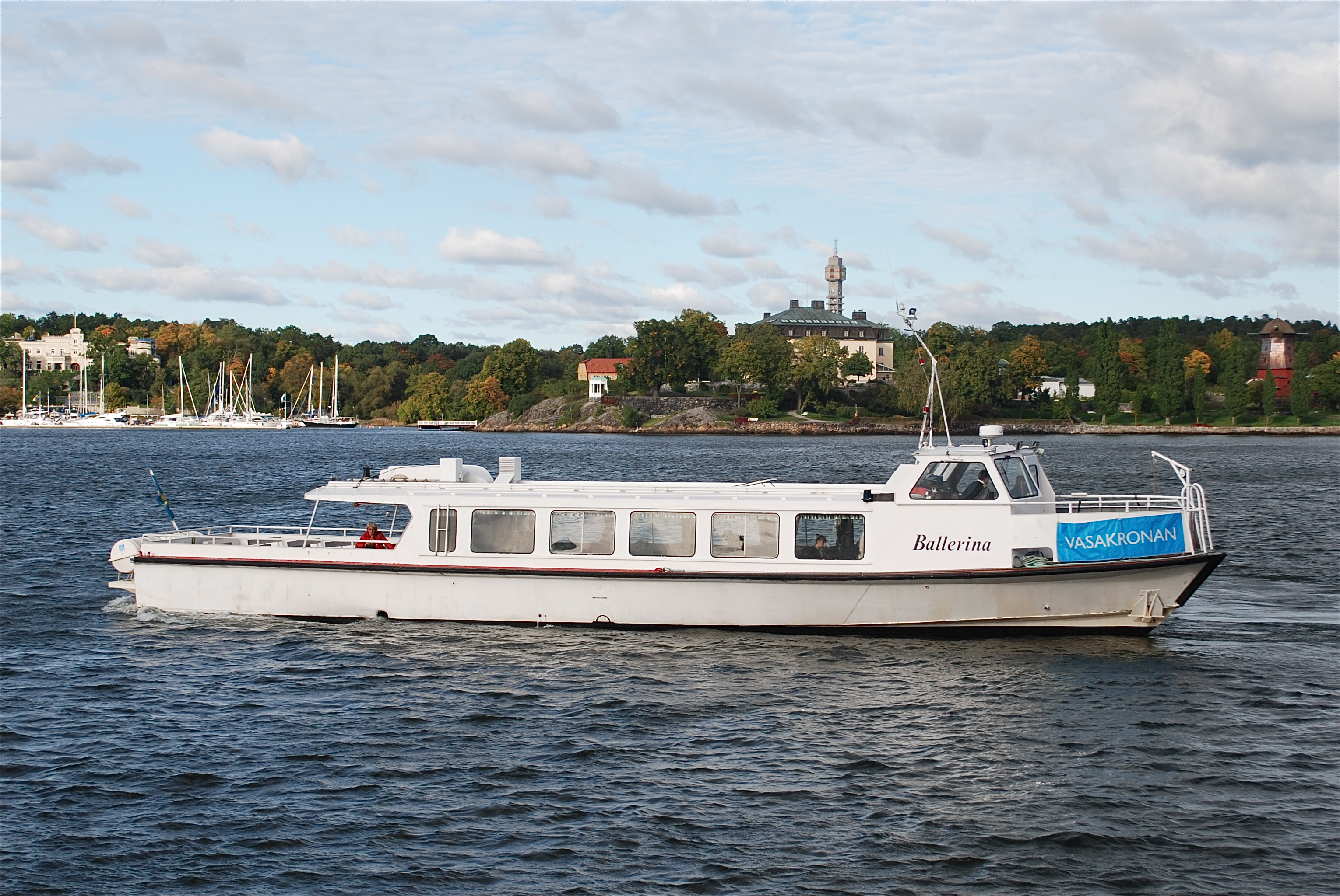 M/S Ballerina outside Saltsjöqvarn.